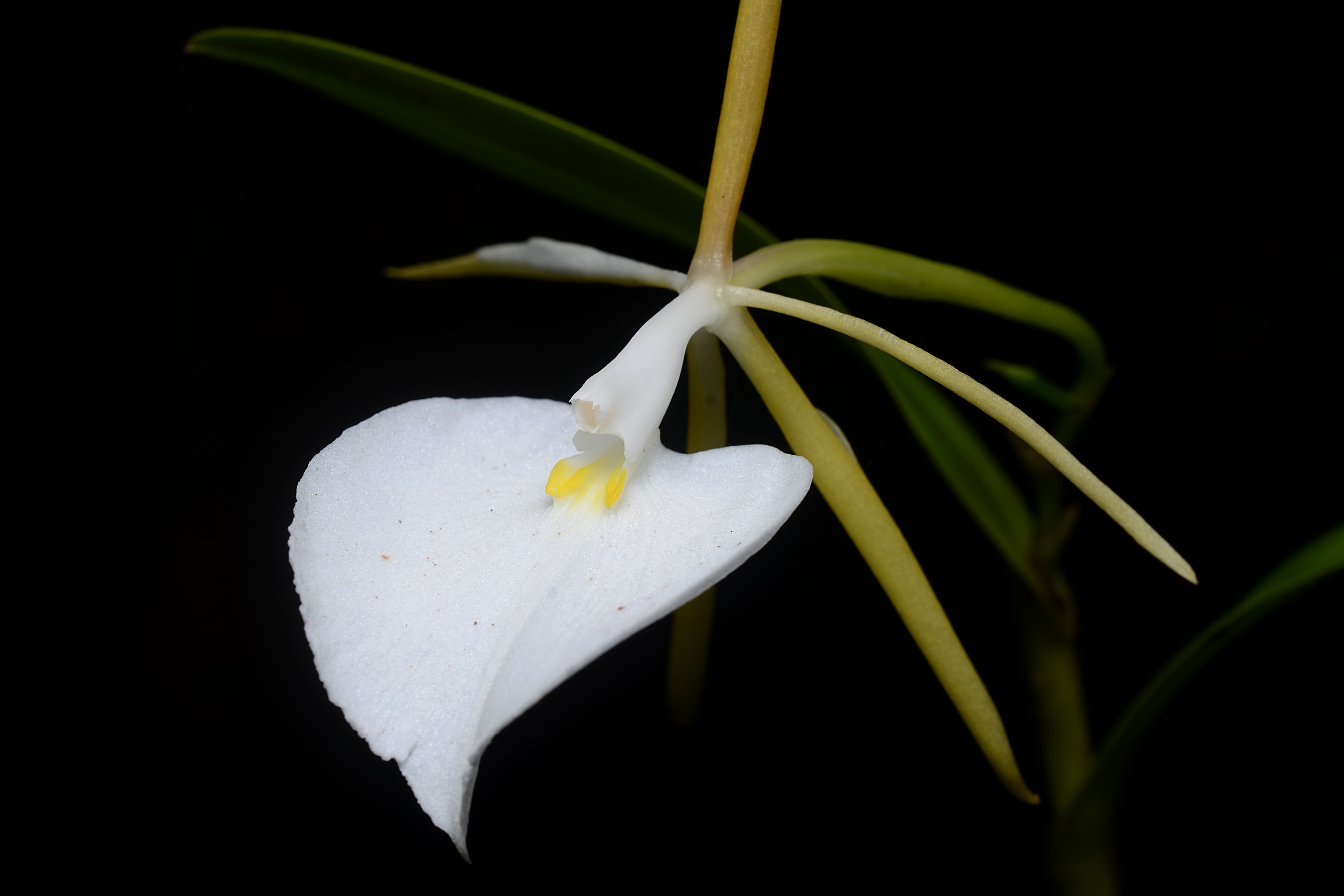 Orchidaceae, found at La Selva, Heredia, Costa Rica